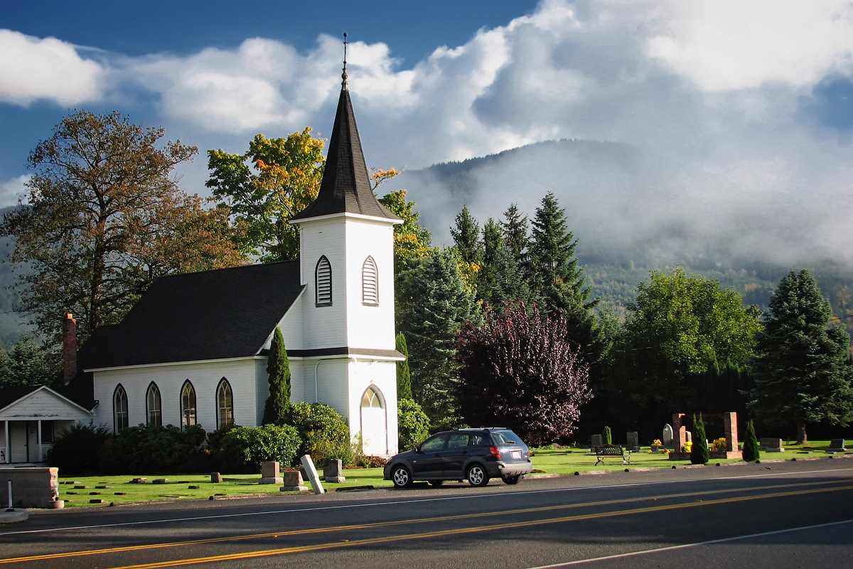 Bethany Chapel in Everson — 3744 Mt Baker Hwy Everson, WA 98247